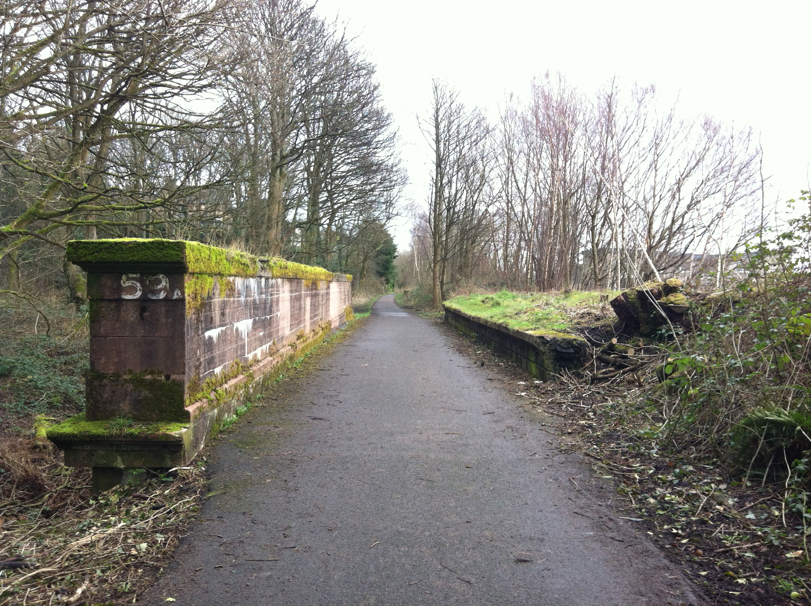 Remains of the platform of the old Bowling (L&D) station. Now a national cycle route.